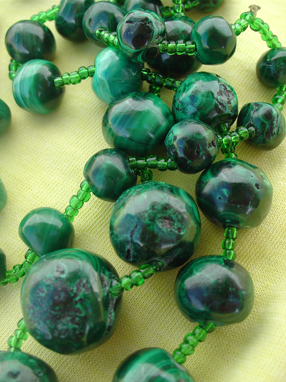 A necklace made of green (malachite) beads.